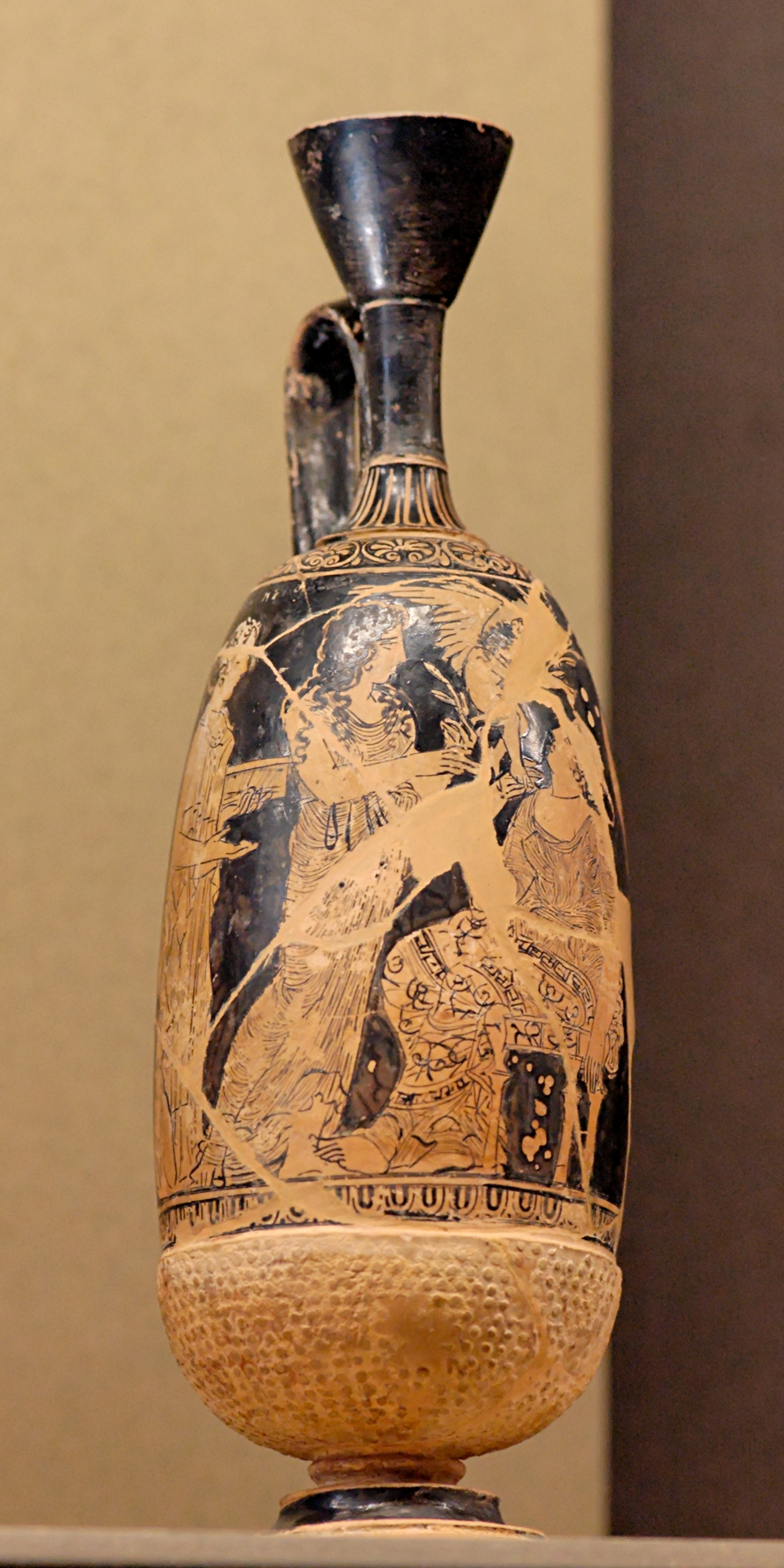 Women with Eros and Aphrodite. Attic red-figure acorn-lekythos, ca. 410–400 BC.